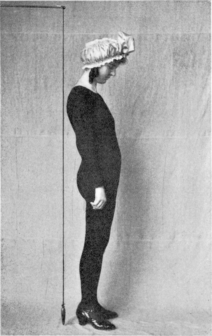 Spirella; How To Adjust